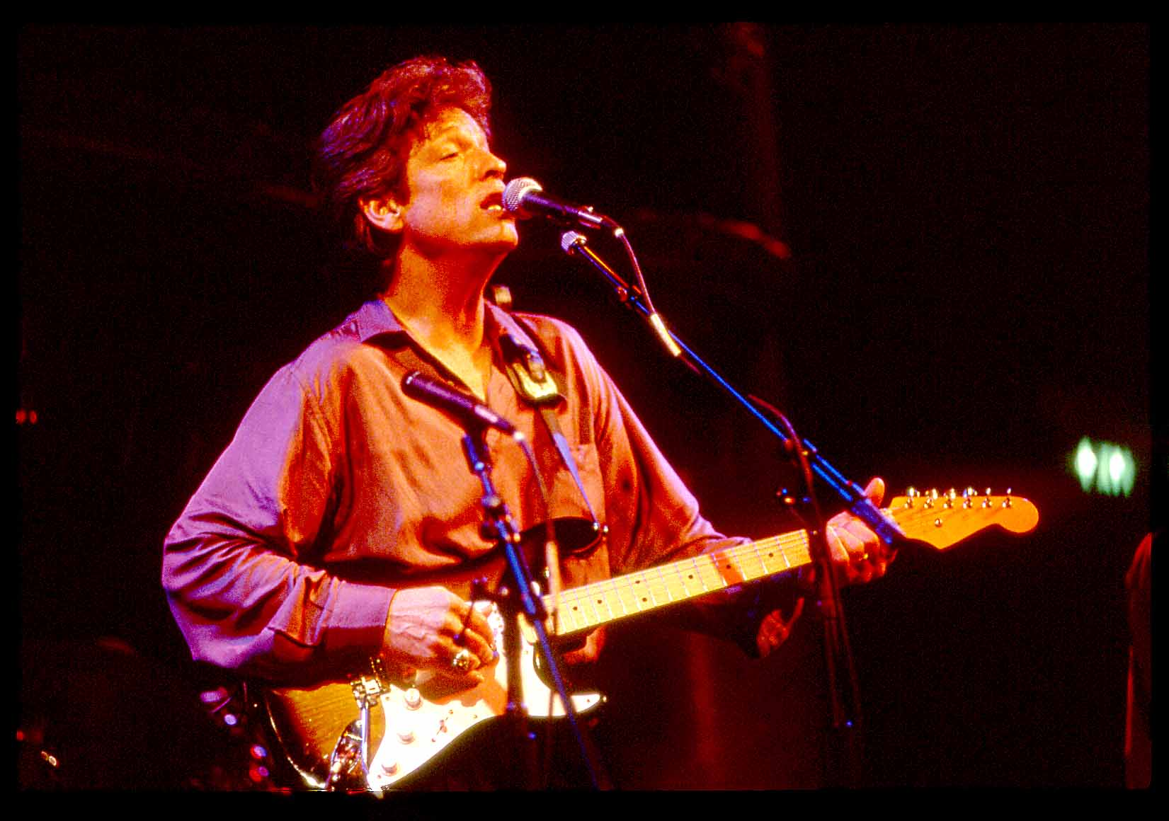 Hammond performing in the 1980s